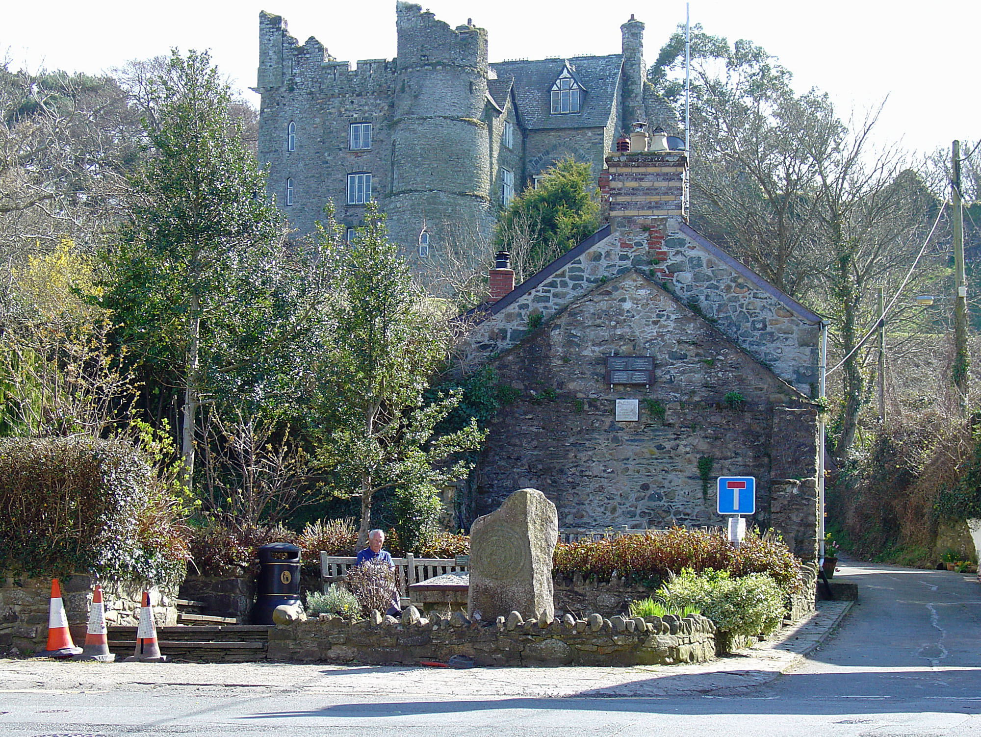 Feidr y Castell, Newport, Pembrokeshire